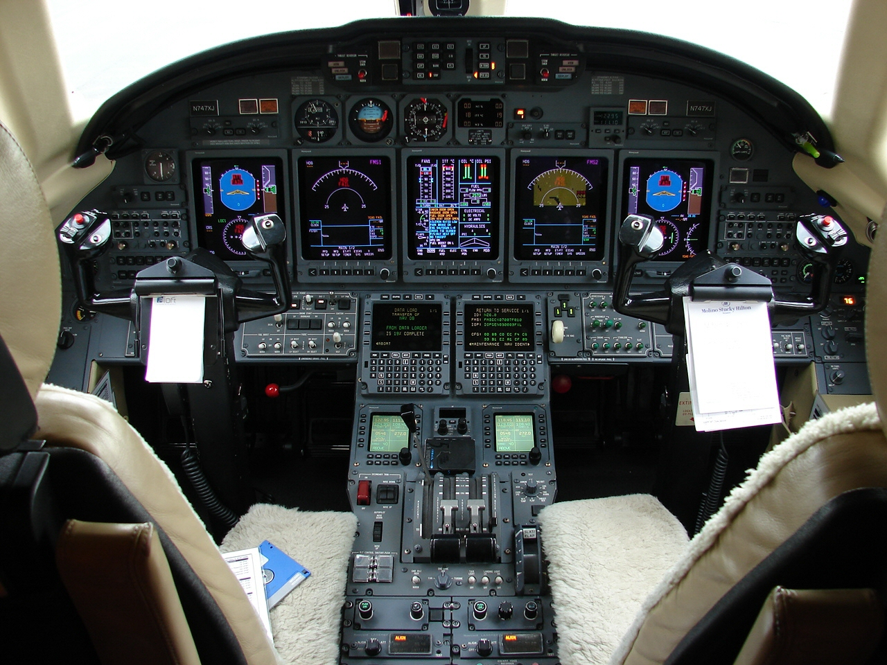 The captain, who was very nice I must add... mentioned that the Citation X shares the same Engines and avionics with the Embraer ERJ, (which I already knew) except the goofy flying boomerangs (aka the yolk) lol